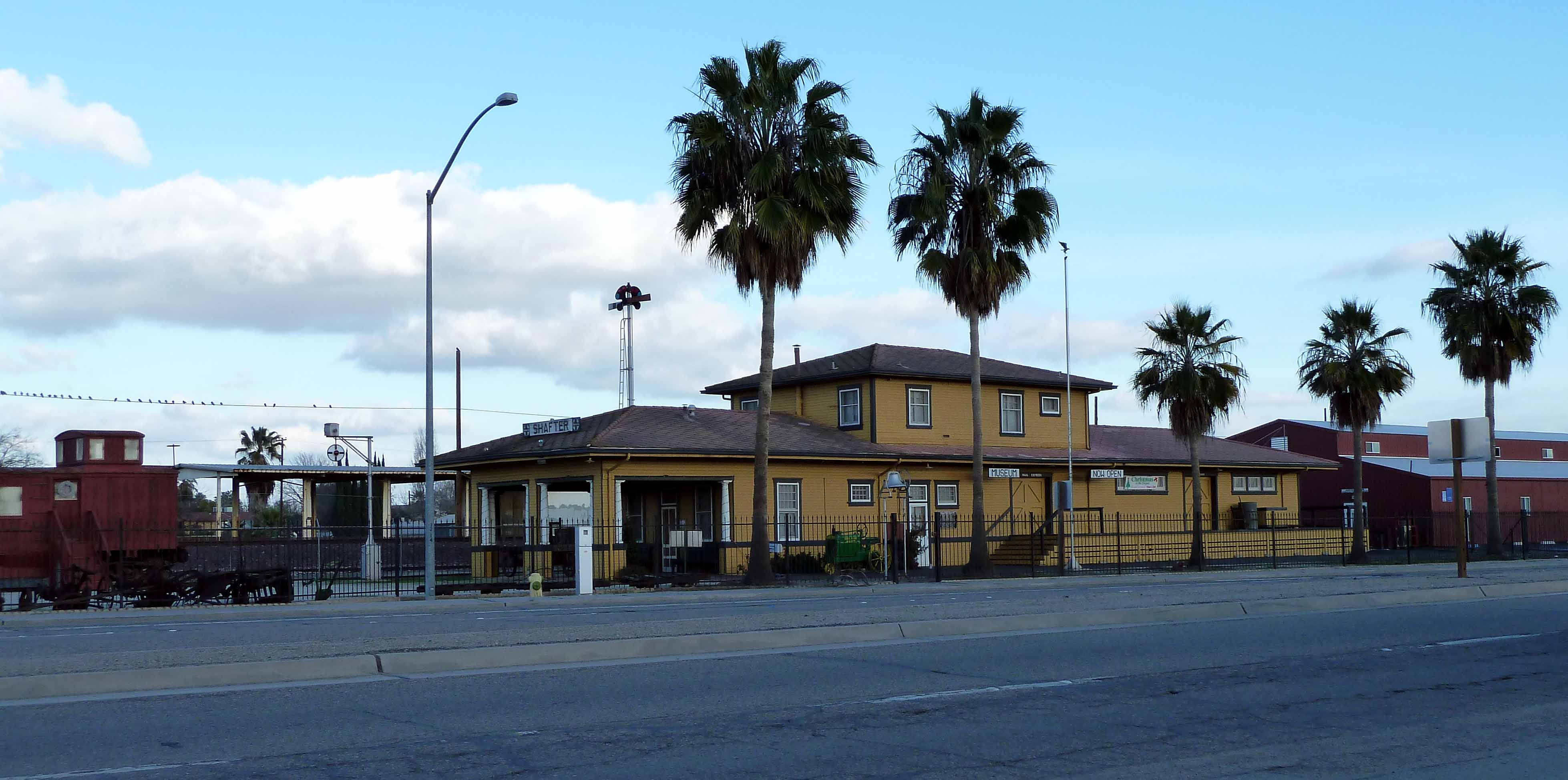 Santa Fe Passenger and Freight Depot — now a history museum in Shafter, Kern County, California. A former Atchison, Topeka and Santa Fe Railway station and depot.